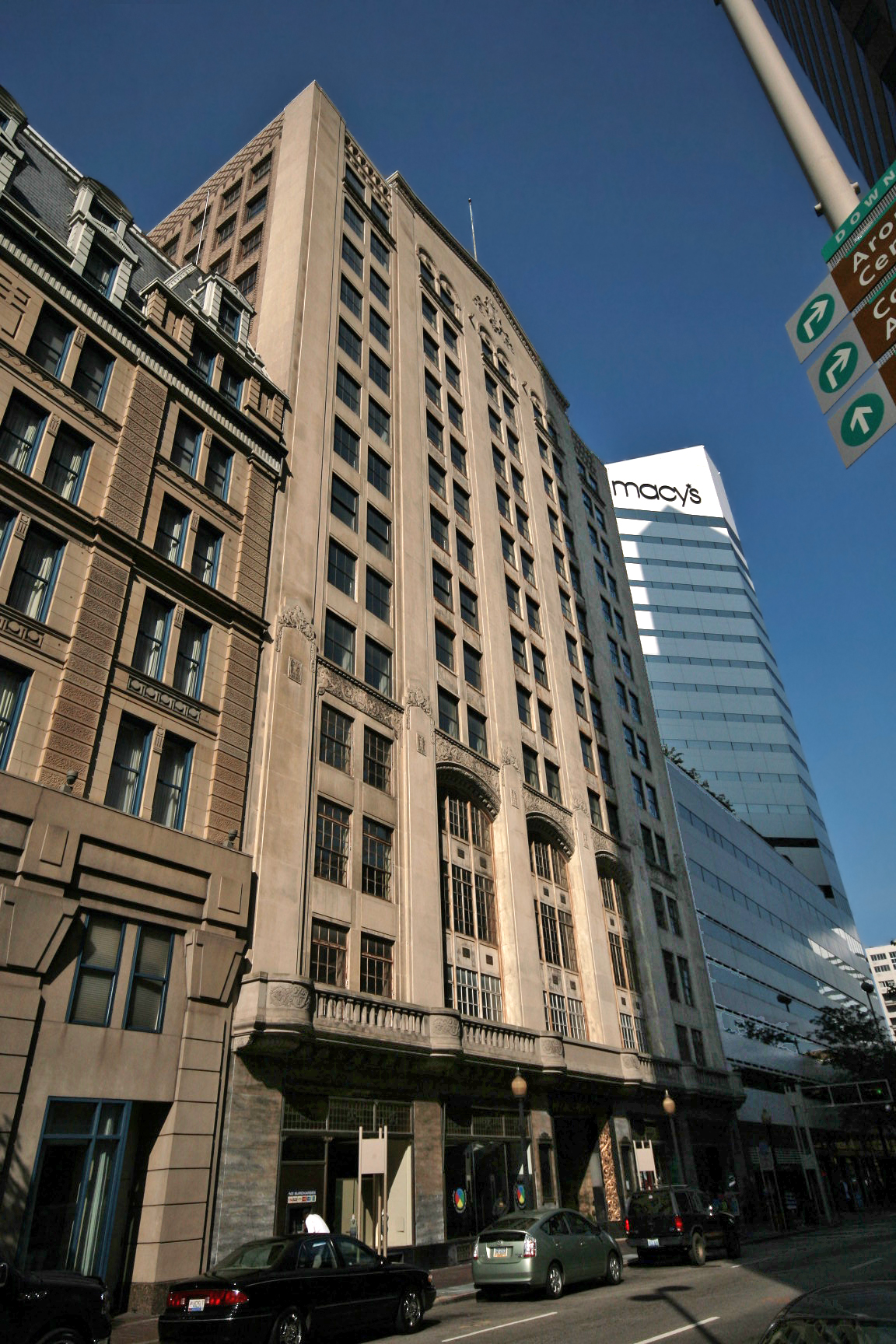 Cincinnati Enquirer Building. Photo by Greg Hume